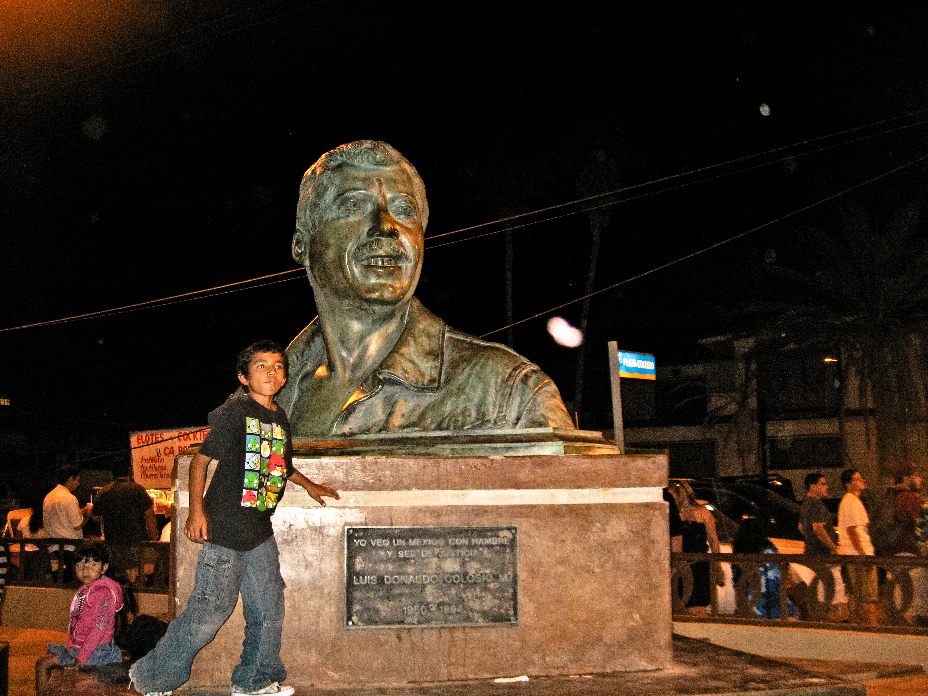 Luis Donaldo Colosio Murrieta (February 10, 1950 – March 23, 1994) was a Mexican politician, and PRI presidential candidate, who was assassinated at a campaign rally in Tijuana during the Mexican Presidential campaign of 1994.